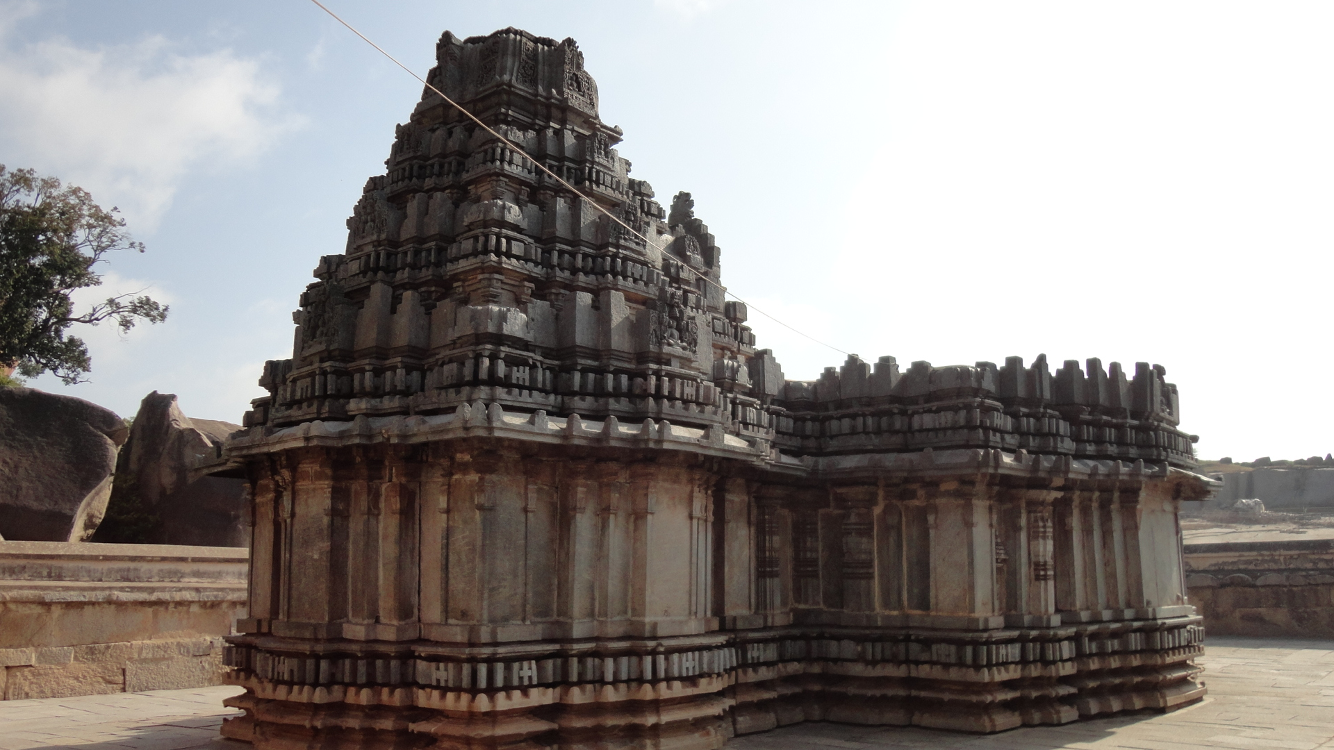 This photo covers the south-western view of the Akkana Basti, Sravanabelgola, Hassan, Karnataka. It mainly focus on the ancient wall and dome carvings.